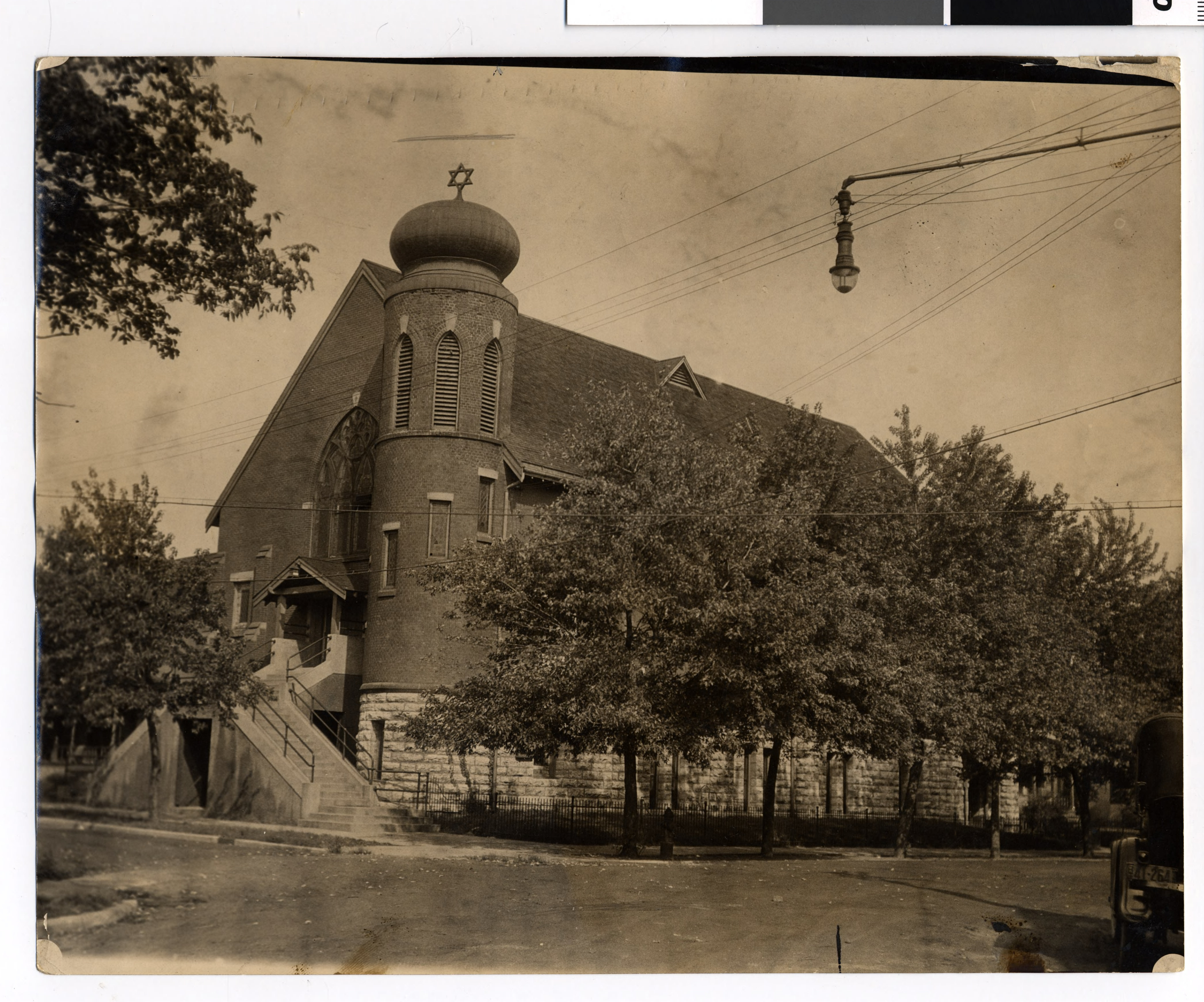 View showing the front exterior of the synagogue that was at the corner of South 9th Street and 12th Avenue South in Minneapolis